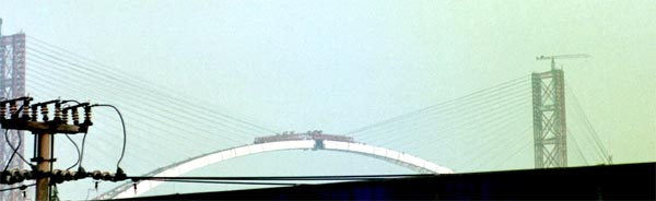 Completion of a suspended arch bridge. Photo by User:Leonard G..